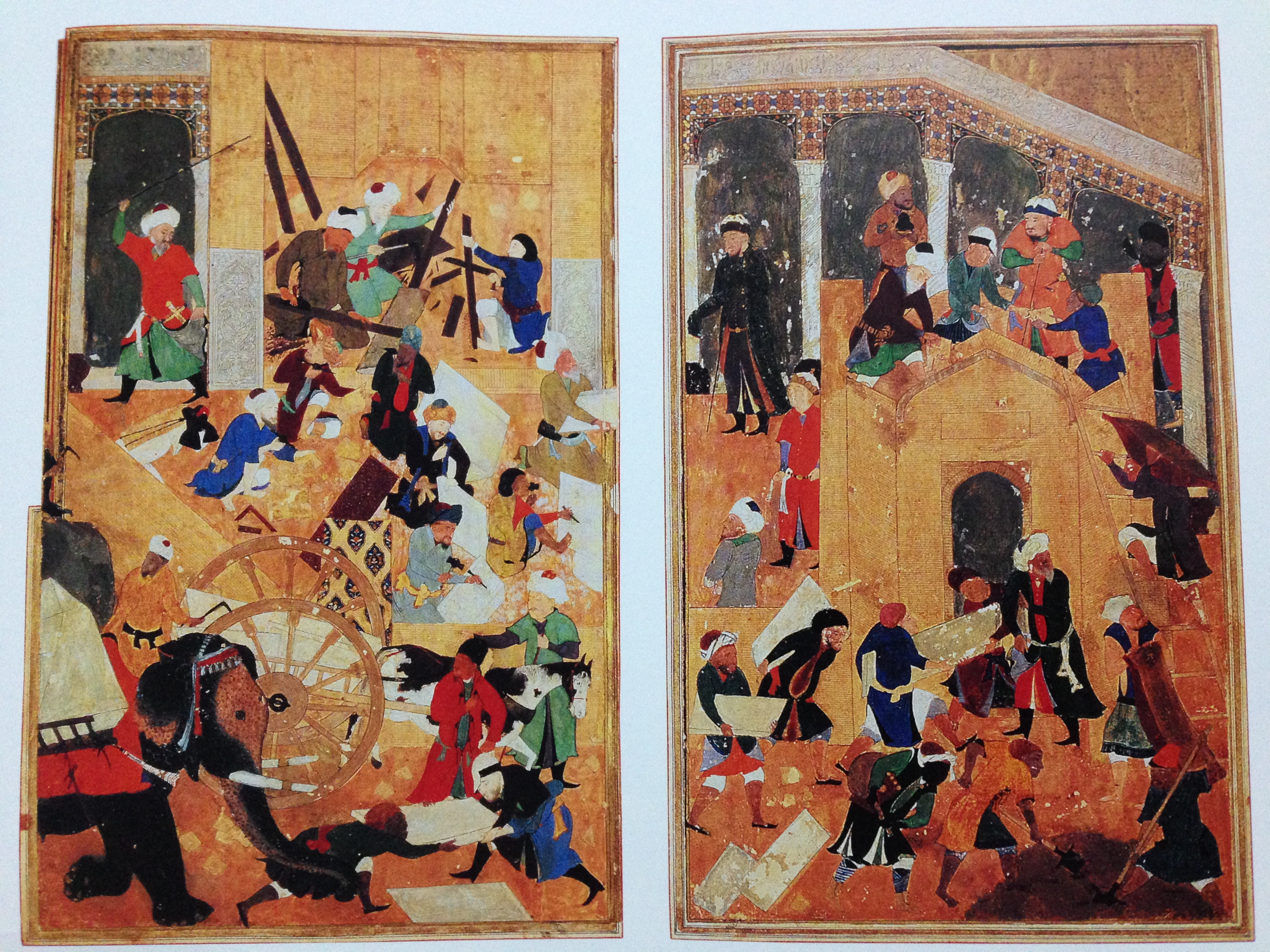 Building the Great Mosque of Samarkand. Illustration by Bihzad for the Zafar-Nameh. Text copied in Herat in 1467-68 and illuminated c. the late 1480s. John Work Garret Collection, Milton S. Eisenhower Library, Johns Hopkins Univeristy, Baltimore. Fols. 359v-36or.